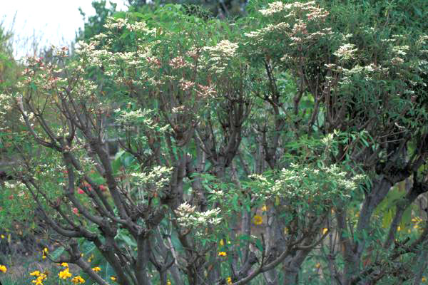 White-laced Euphorbia (Euphorbia leucocephala). [1]